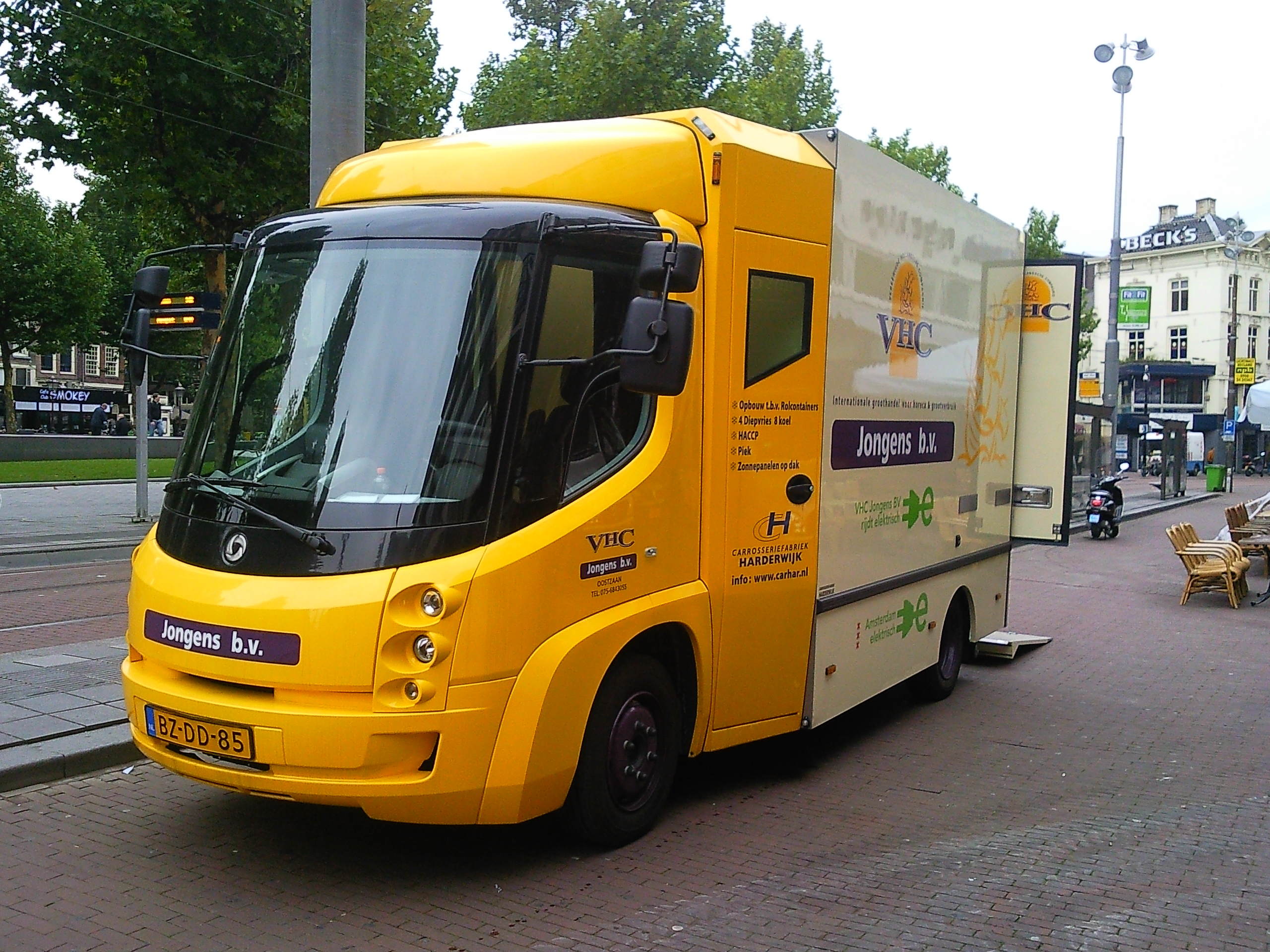 A electric vehicle of VHC made by Modec. The coachwork is done by Carhar. It's driving aroudn in Amsterdam and has the Amsterdam electric eblem.